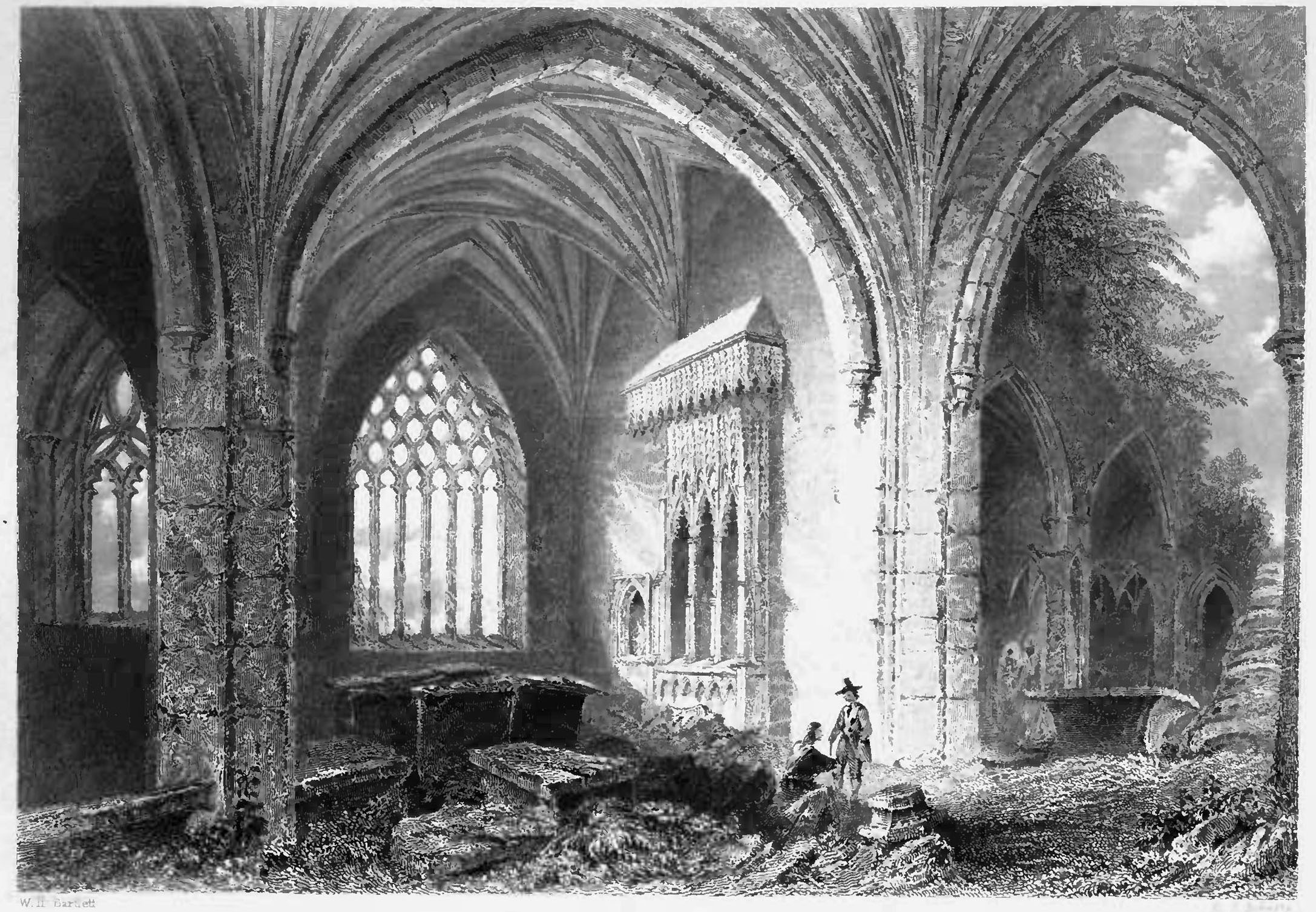 Holy Cross Abbey, Bartlett, W. H. (William Henry), 1809-1854.